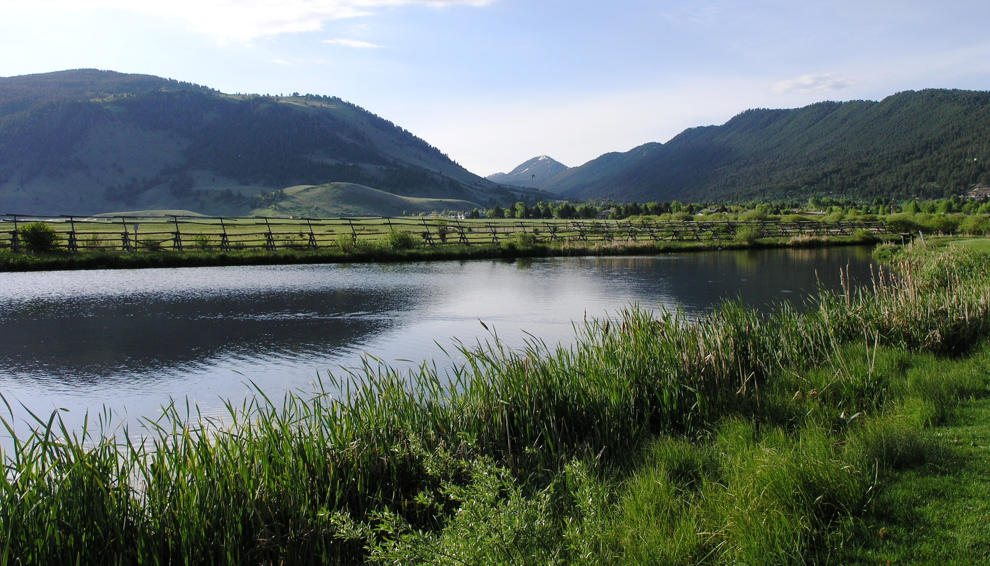 Photo in or around Grand Teton National Park